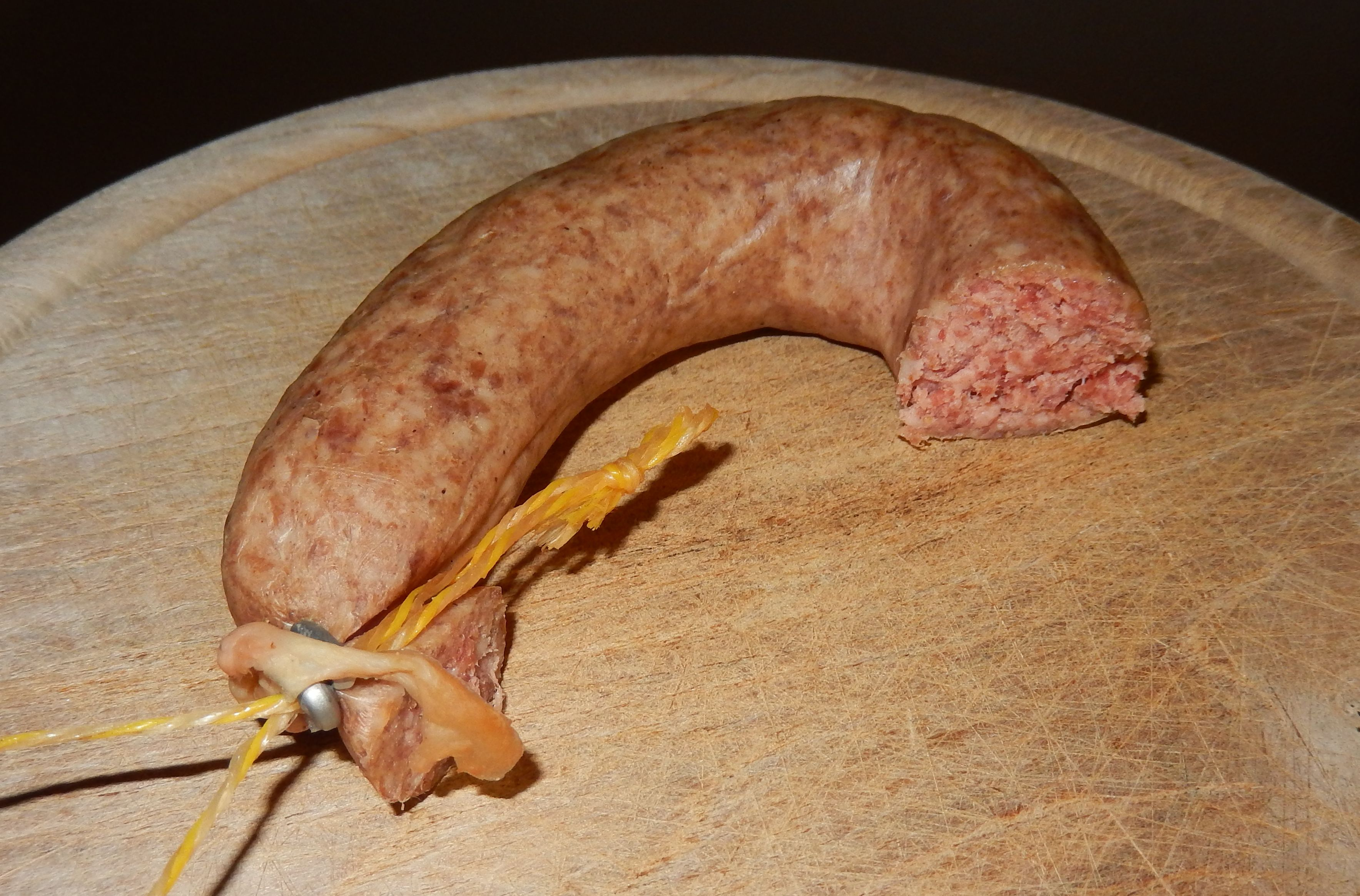 German sausage Bregenwurst.